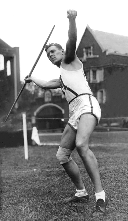 1934 Press Photo Javelin thrower Horace Odell qualifies for finals - nes11854